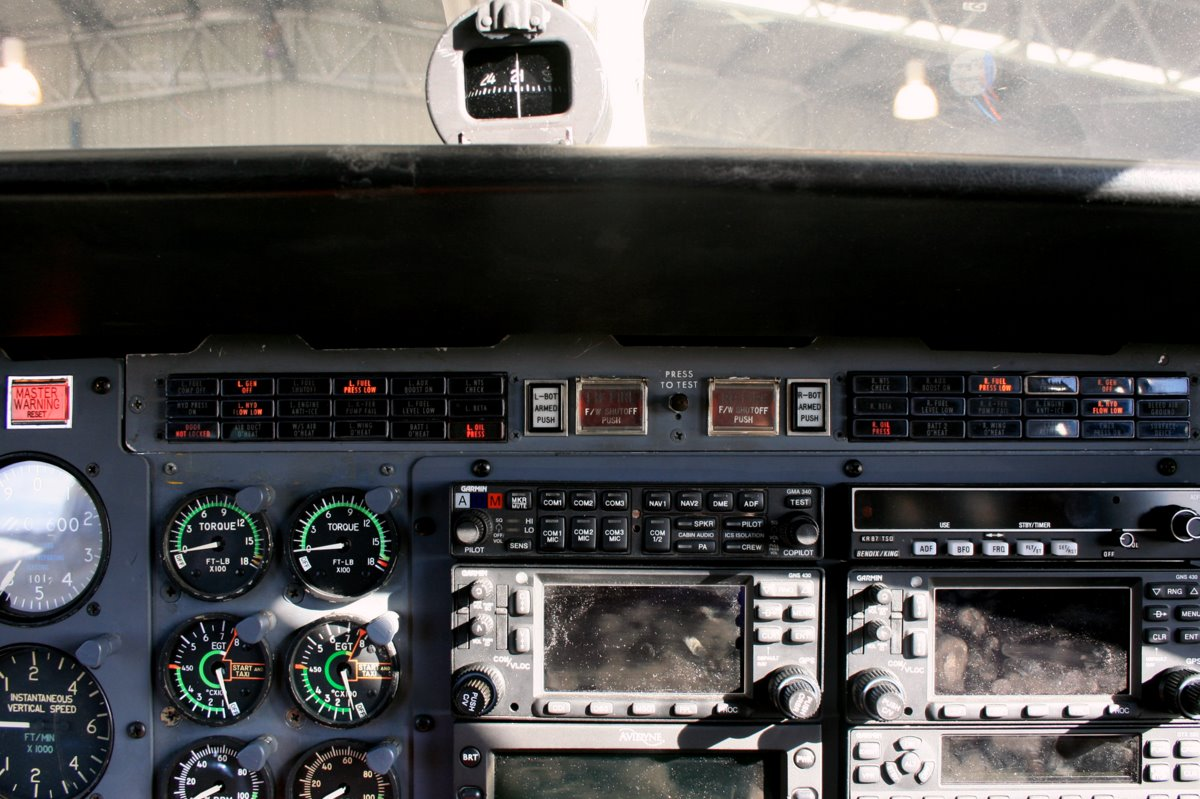 The annunciator panel of a Cessna 441 Conquest is separated into two modules, with engine fire warning annunciators, engine fire extinguisher switches and an annunciator test switch between them. To the left of the left-hand module is a combined Master Warning annunciator and switch; the Master Warning annunciator flashes when any red annunciator in either module illuminates, pressing the Master Warning closes the switch which stops the flashing warning.